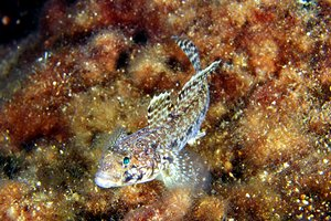 Picture of Gobius geniporus